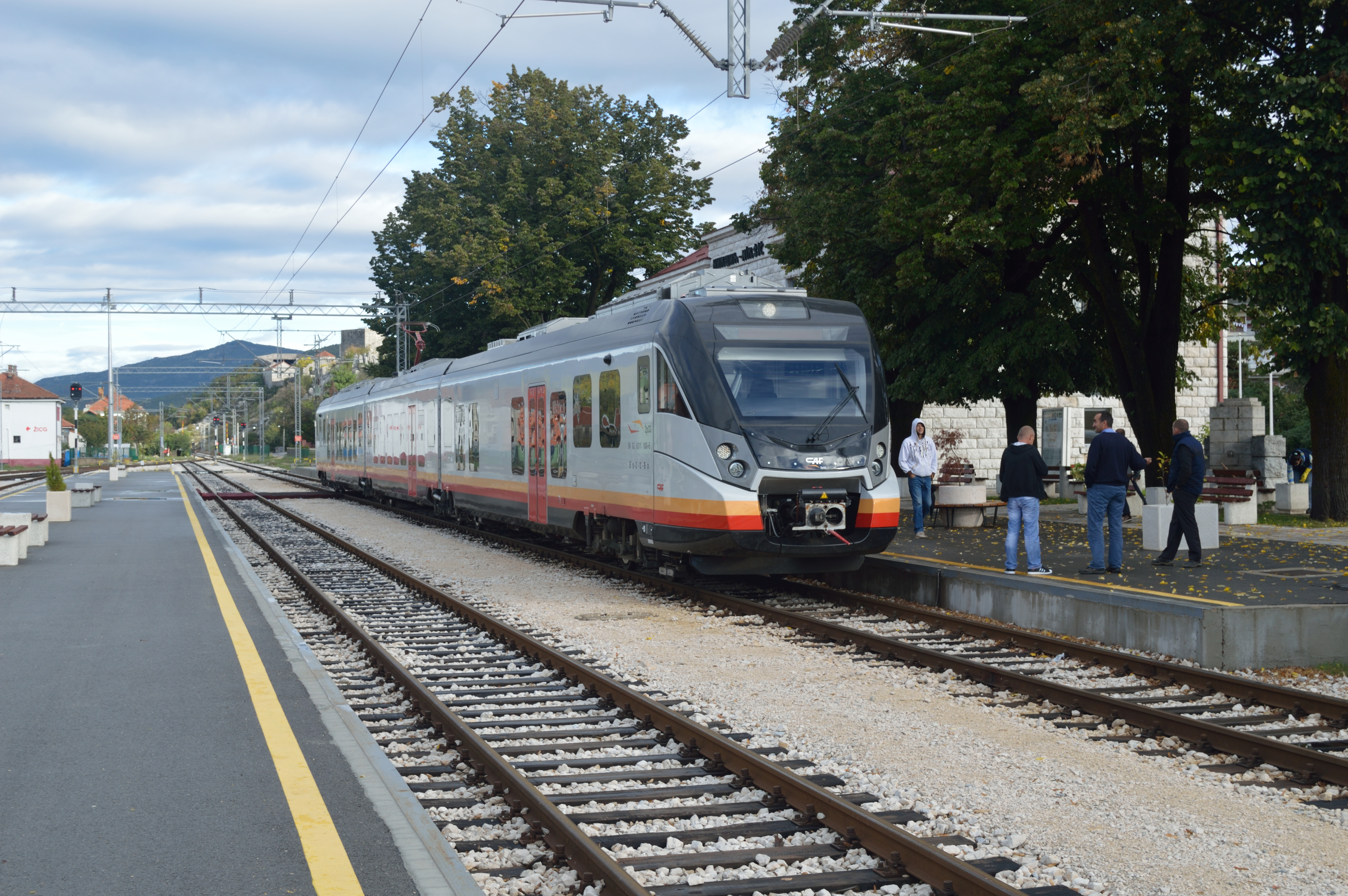 Balkans Rail Trip, Autumn 2013 - Day Nine After best part of week travelling around Serbia, it was a stark contrast to arrive in neighbouring Montenegro. Again formerly part of Yugoslavia, upon the breakup in the early 1990s was formed Serbia and Montenegro governed from Belgrade (Beograd). It was only in 2006 that the region of Montenegro declared independence. Subsequently the some of the former Serbian Railways (ŽS) fleet was passed over to the newly formed Montenegrin Railways, ŽCG. The hub of the system is Podgorica, the capital and largest town. However it didn't stop there. The Montenegrin rail network on independence was basically just the main line from Beograd in Serbia crossing into Montenegro through the capital Podgorica and onto the Adriatic seaport of Bar. In addition to a freight only line from Podgorica to Shkodër in Albania, the only other remnant was the then closed line again from Podgorica through to Nikšić. Originally built in 1948 to 760mm gauge and re-gauged in 1965. Soon after the breakup of Yugoslavia the line was closed due to poor track condition and insufficient funds to repair it. However around the time of independence, funding was provided to fully reconstruct the line along with electrification. Once reopened, passenger train services commenced operated mainly by locomotive and old rolling stock. However in 2012 an order was placed for new 3-car EMUs built by CAF. Seen here at the branch terminus station of Nikšić, one of the new EMUs sits in the platform waiting to depart on train 7103, 08:40 Nikšić to Bar. To the right is the station building which has been rebuilt along with other infrastructure on this 56km line. Frequency of trains on the line is on the increase with deliveries of the new EMUs.